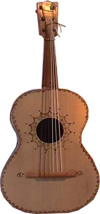 Gitarron